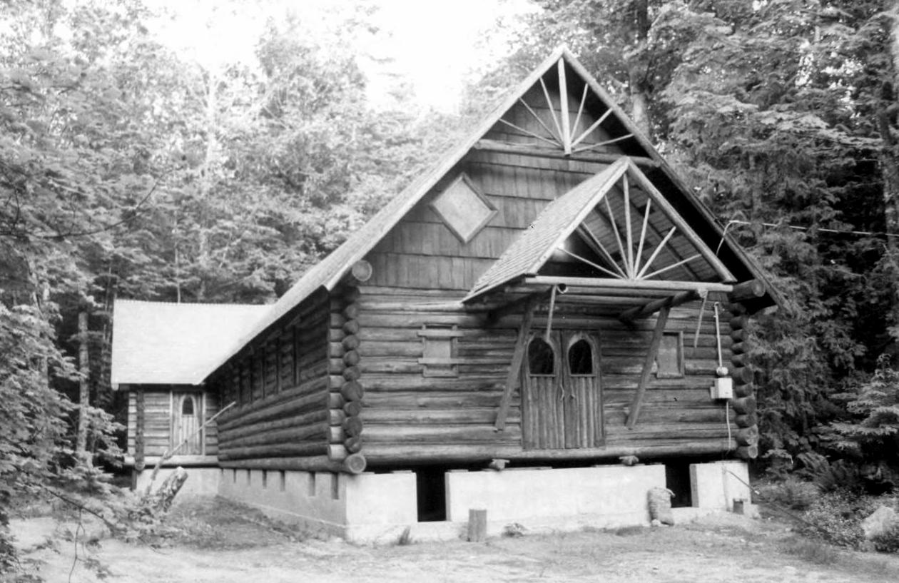 The historic former St. John the Evangelist Roman Catholic Church (built 1937), located at 68835 East Barlow Trail Road near Welches, Oregon, United States, is listed on the US National Register of Historic Places.